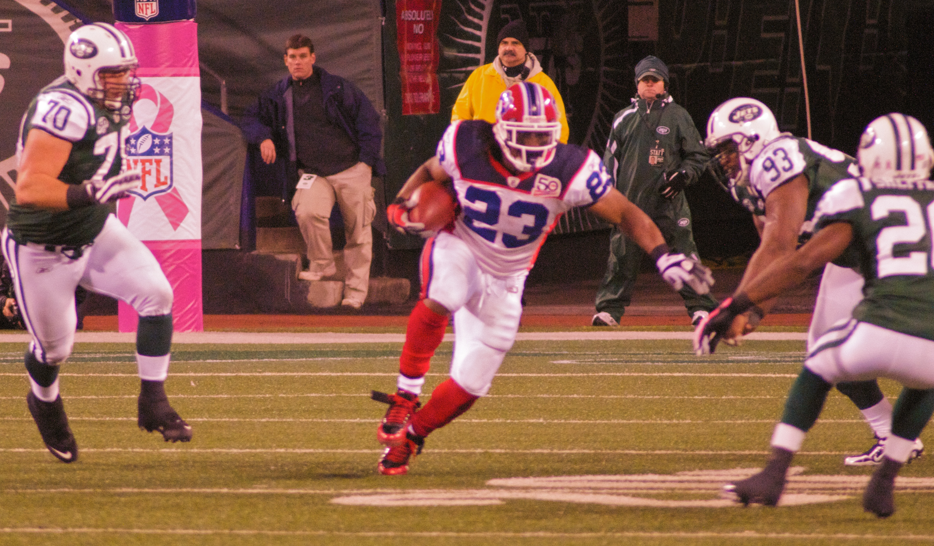 Marshawn Lynch of the Buffalo Bills